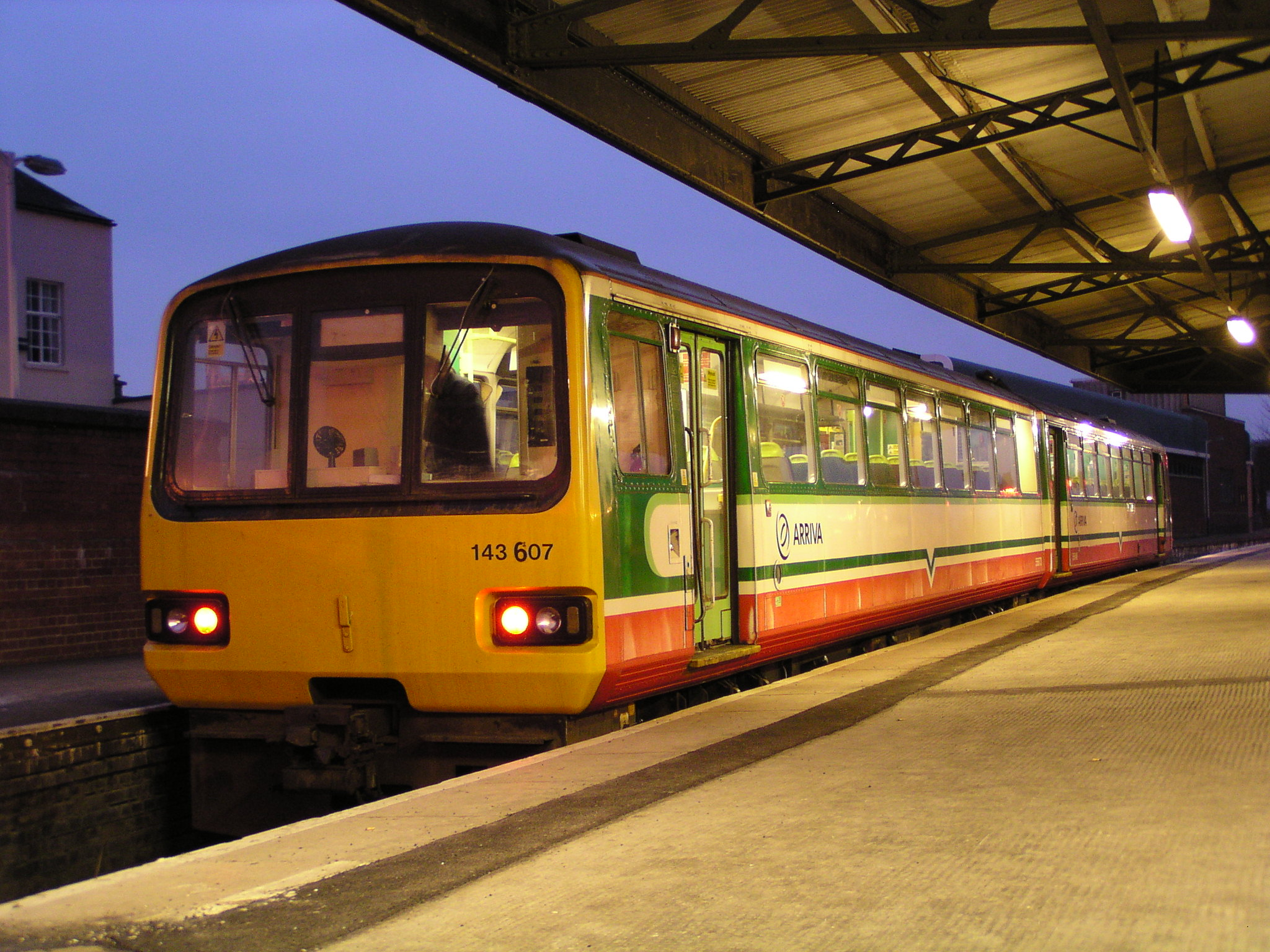 British Rail Class 143 no. 143607 at Gloucester on 8th March 2005. This unit is painted in the now defunct Valley Lines livery. Image by Phil Scott (Our Phellap)